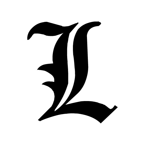 The capital letter "L" in the font Old English Text .